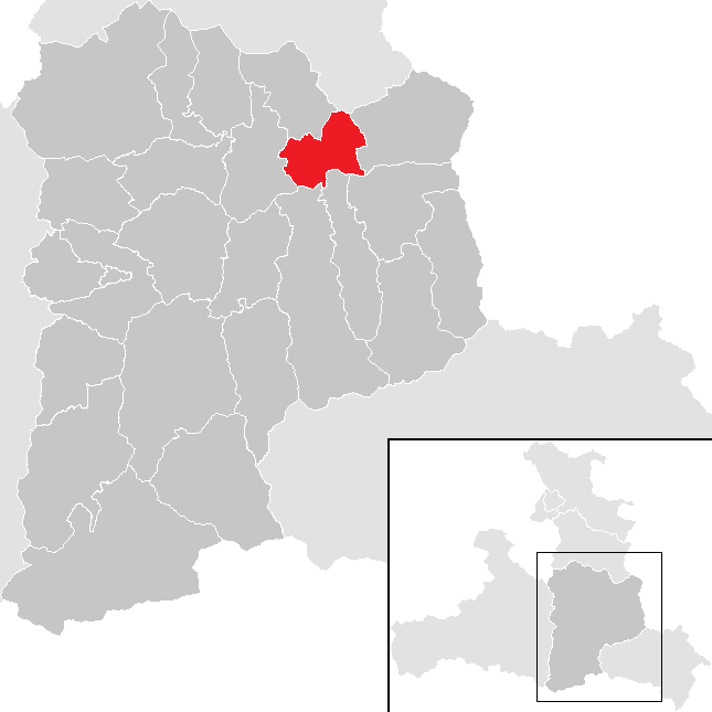 District Sankt Johann im Pongau